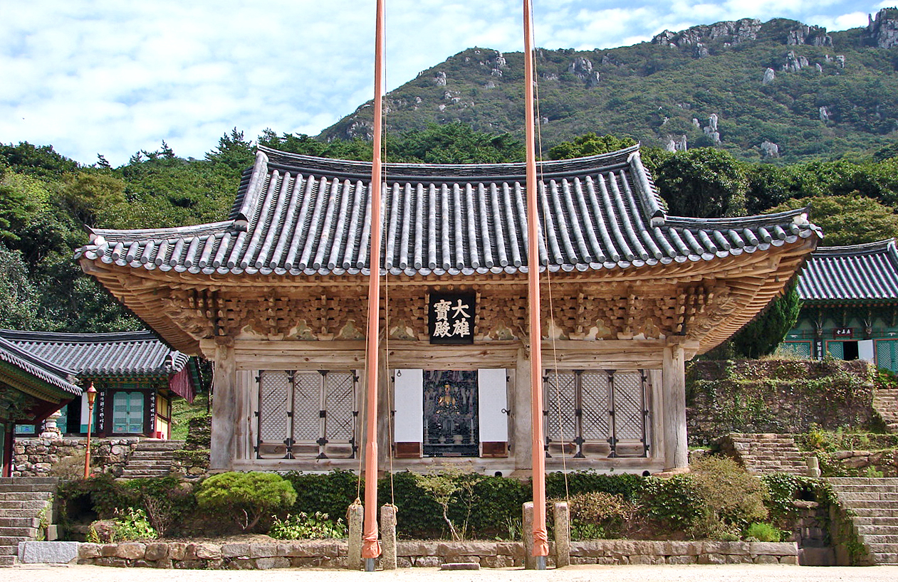 Mihwangsa is a Buddhist temple, established in 749 AD during the Silla Dynasty, located at the southern-most part of the Korean peninsula on the west side of Dalmasan (Dharma Mountain), Haenam County, South Jeolla Province, South Korea. Mihwang comes from "Mi" (beautiful), after the unusually pleasing, strangely musical bellow of a cow, and "Hwang" (yellow/gold) for golden robes of the mythical founder.